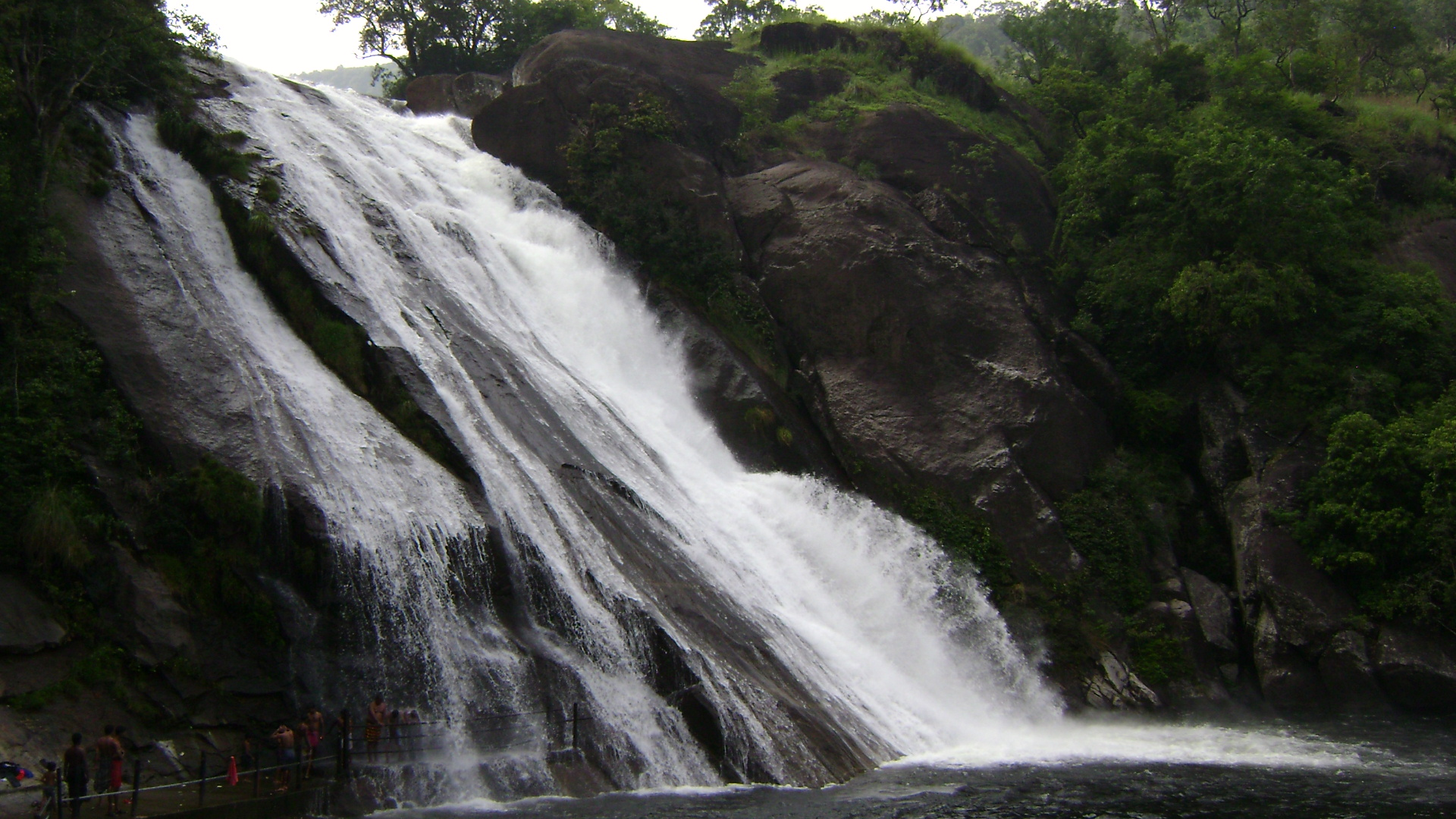 Waterfall at Papanasam - to be reached by boat